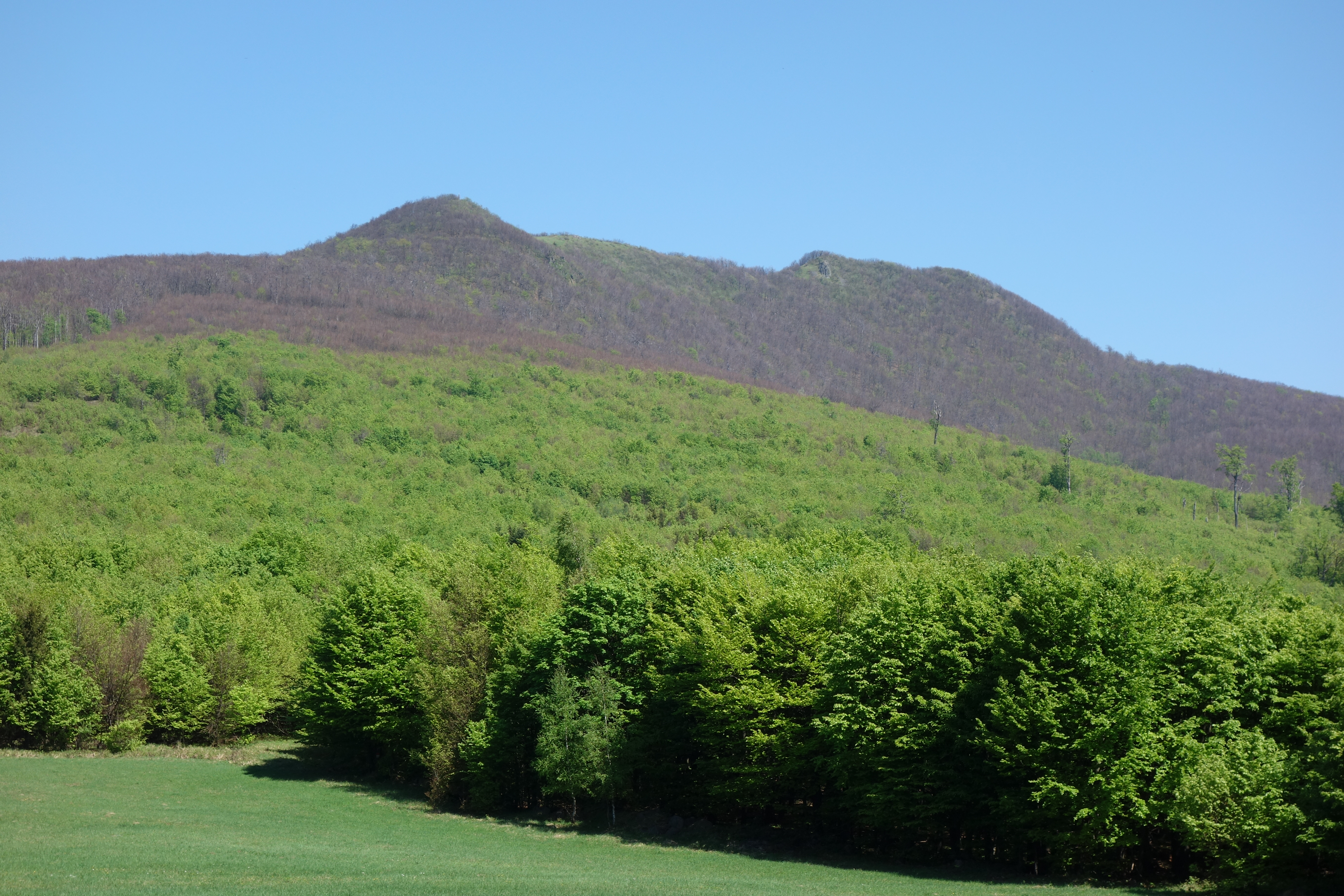 View of Vihorlat from the southwest of the meadow in April This is a photography of Natura 2000 protected area with ID SKUEV0025